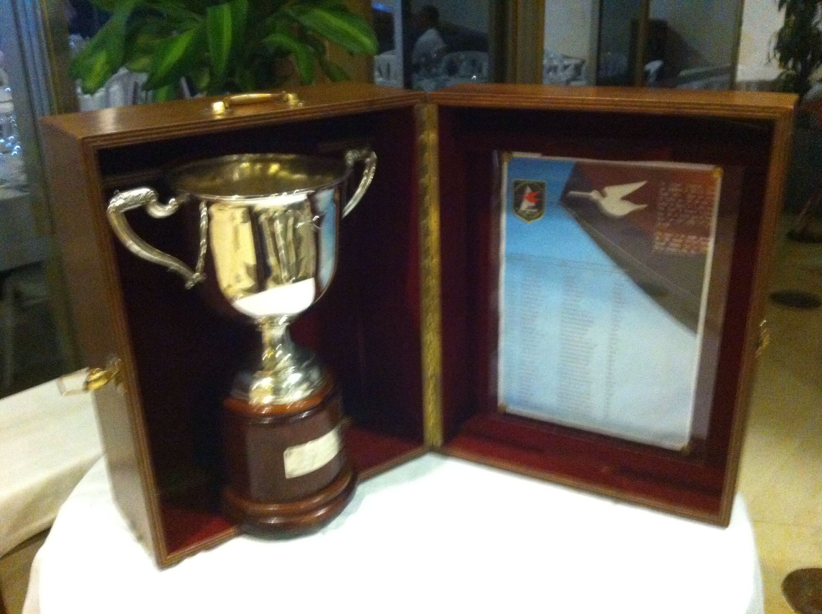 European Championship Trophy, SCIRA